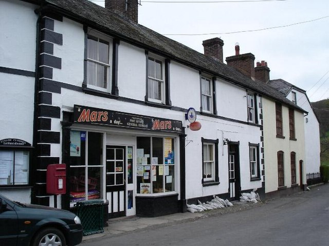 Llanfair TH village shop. The shop sits on the main road through the village. Sand bags can be seen in front of the building to the right - required when the Afon Elwy bursts its banks.